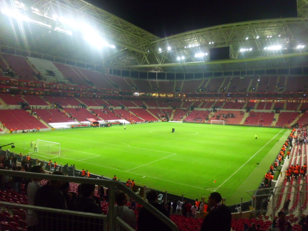 turktelekomarena_tr-aze